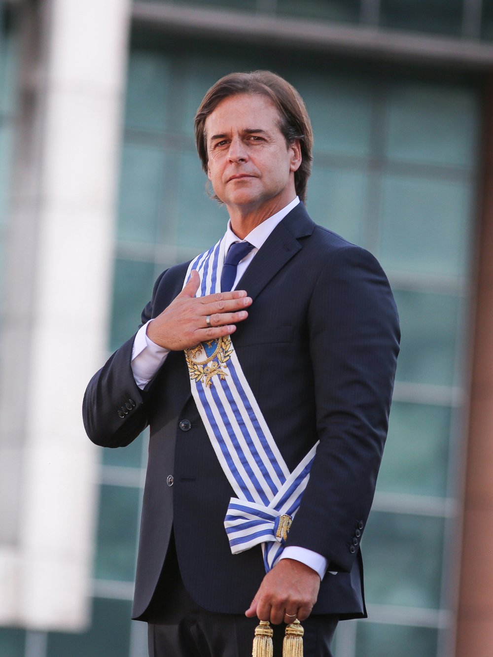 Official Photo of President Luis Lacalle Pou